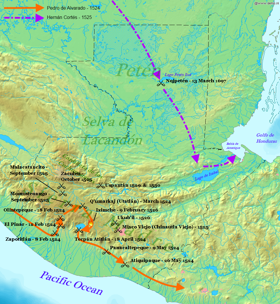 Map displaying the principal events of the Spanish Conquest of Guatemala, and the route taken by Pedro de Alvarado. Bounding box West -92.5°, South 13.5°, East -88°, North 18.2°. Center at 15°51′00″N 90°15′00″W / 15.85000°N 90.25000°W.